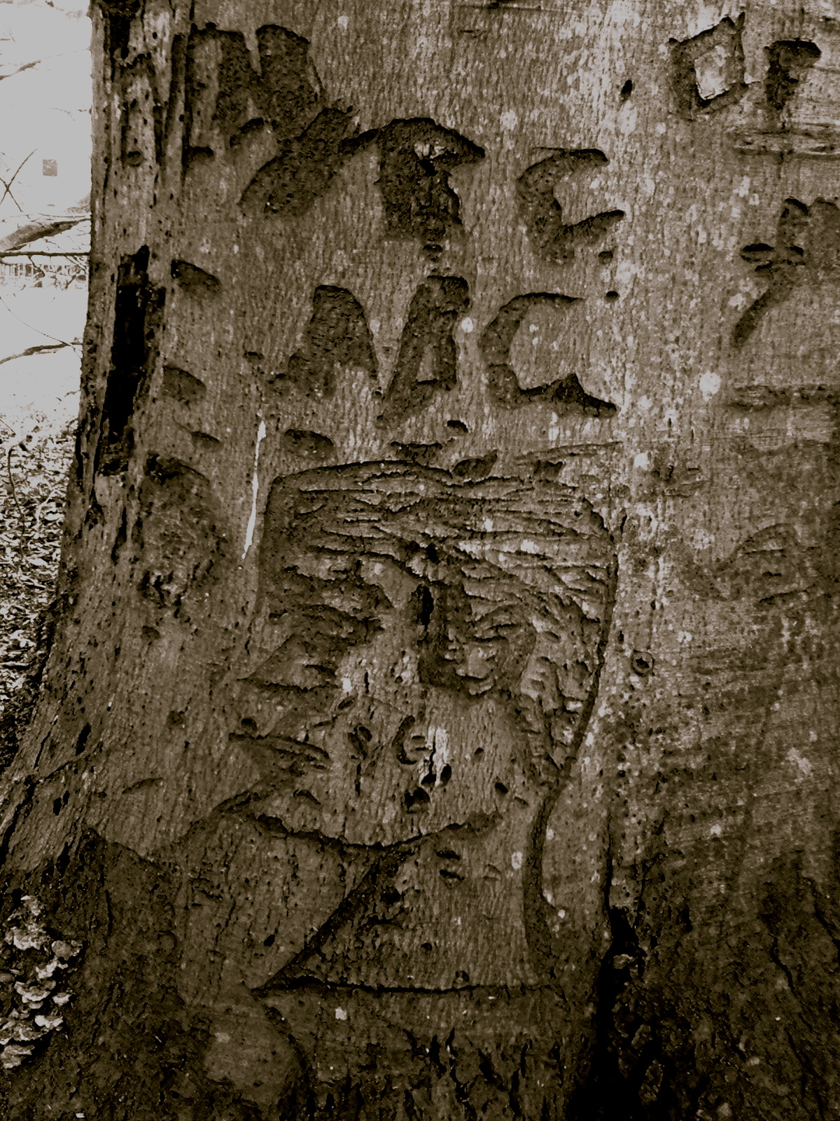 Tree with face engraved on it